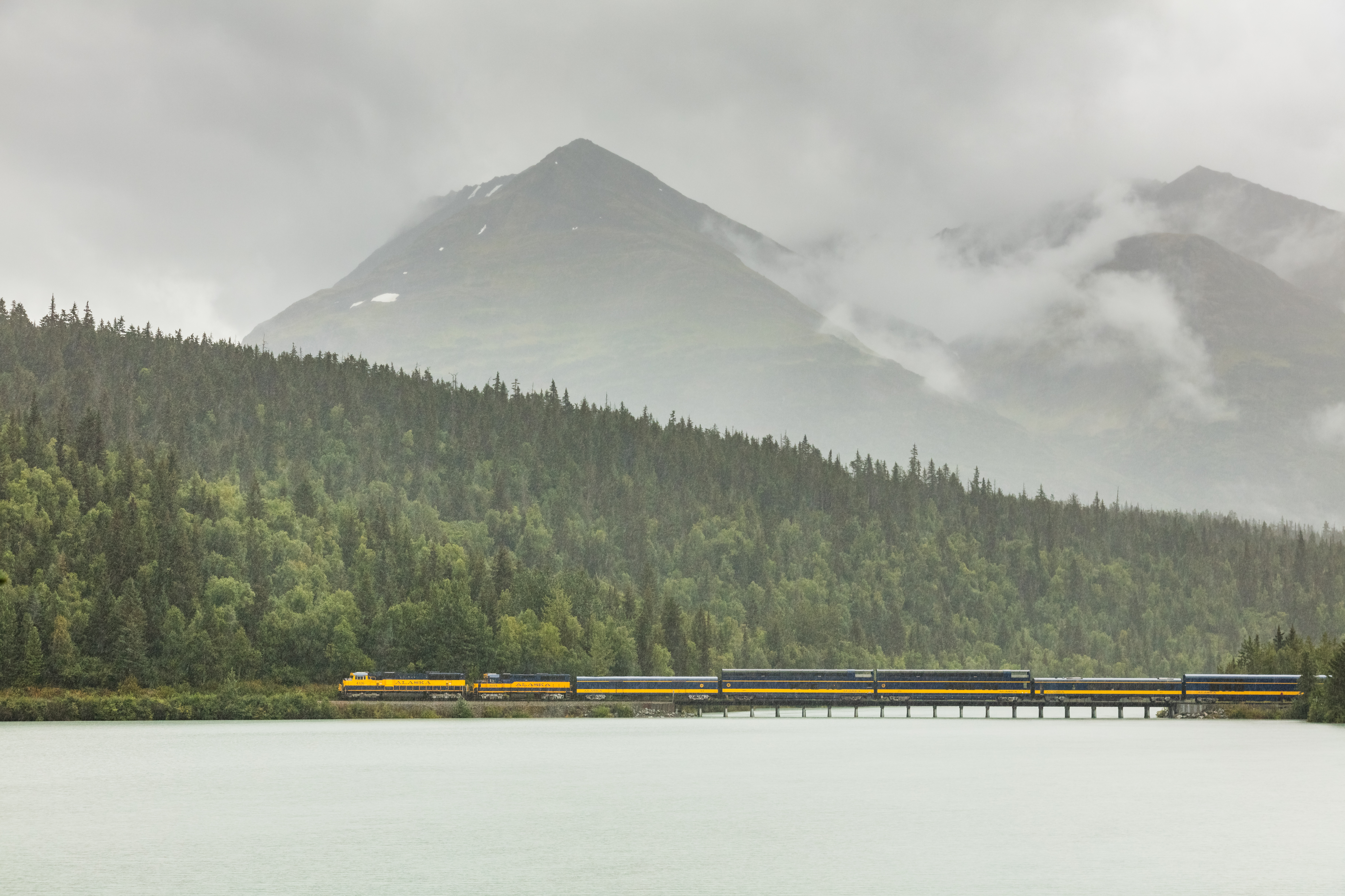 Passenger train of the Alaska Railroad passing through Moose Pass near Portage, Alaska, USA.